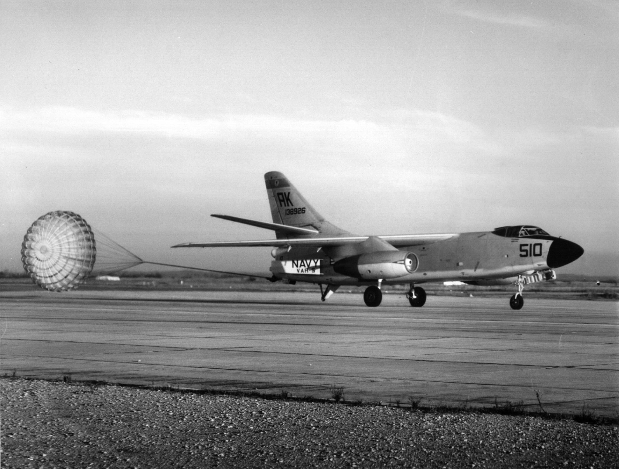 A U.S. Navy Douglas A3D-2 Skywarrior (BuNo 138926) of Heavy Attack Squadron 5 (VAH-5) "Savage Sons" landing at Naval Air Station Port Lyautey, Morocco. VAH-5 was assigned to Carrier Air Group 10 (CVG-10) aboard the aircraft carrier USS Forrestal fo the Mediterranean Sea from 11 July 1958 to 12 March 1959.